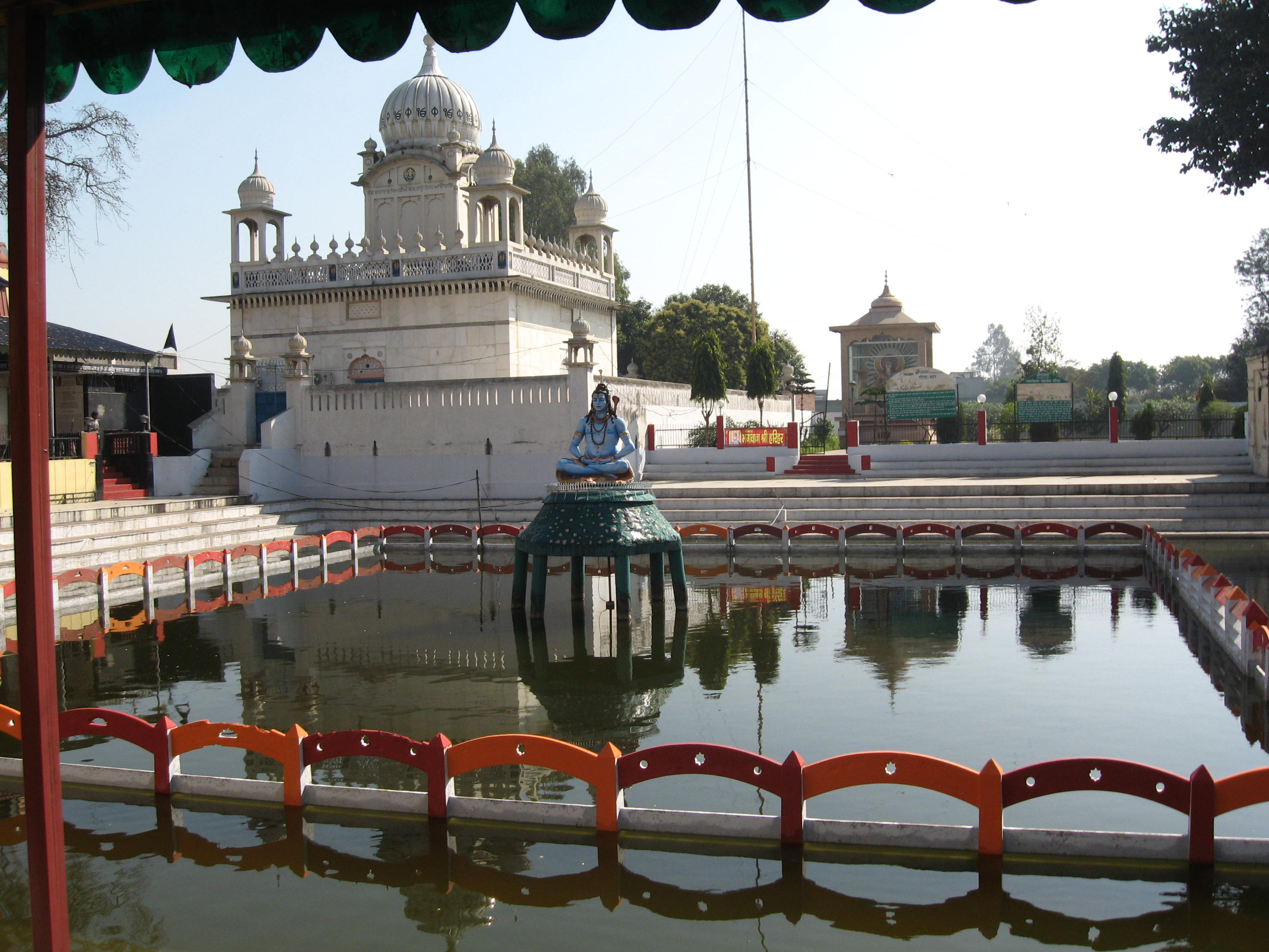 You will see this kund at the entrance of Sthaneshwar Mahadev Mandir